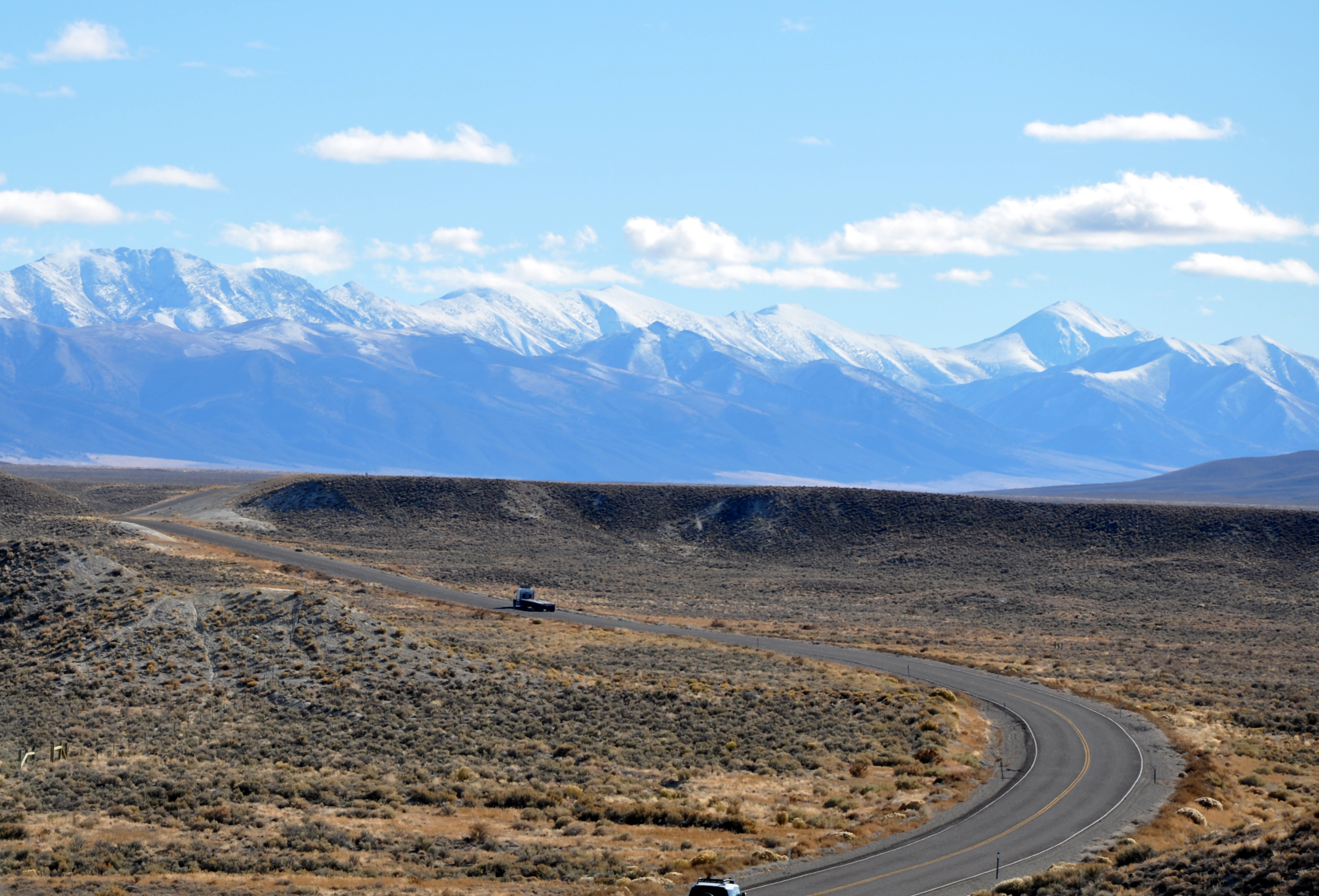 Toiyabe Range in north-central Nevada, United States. View is to the south from a small hill near Nevada State Route 305.